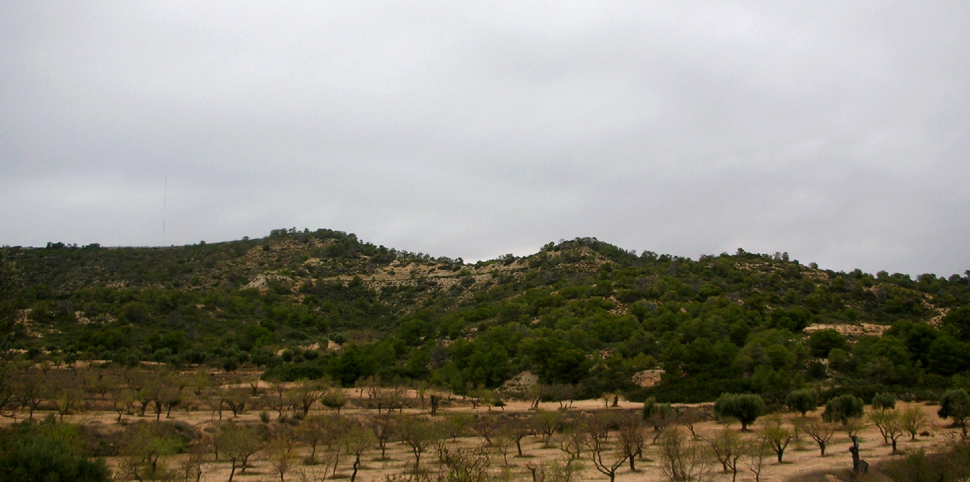 Auts, mountains between Faió and Mequinensa, Aragon